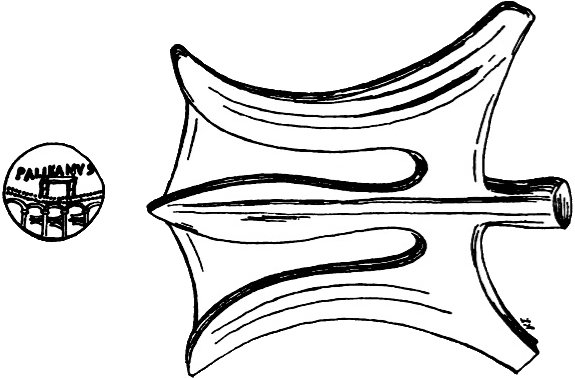 Image from Rivista italiana di numismatica 1891 (p. 101): a rostrum tridens, Left: a coin of Lollius Pallicanus (Lollia 2; Crawford 473/1; Syd 960).